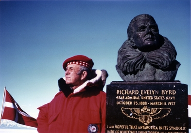 Laurence Gould posing next to a bust of American polar explorer Richard Evelyn Byrd.